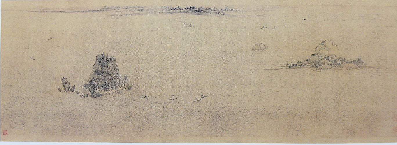 Sunset landscape on Jinshan Jiaoshan islands, handscrol, ink on paper, 1494, 35x254cm in Shanghai Museum